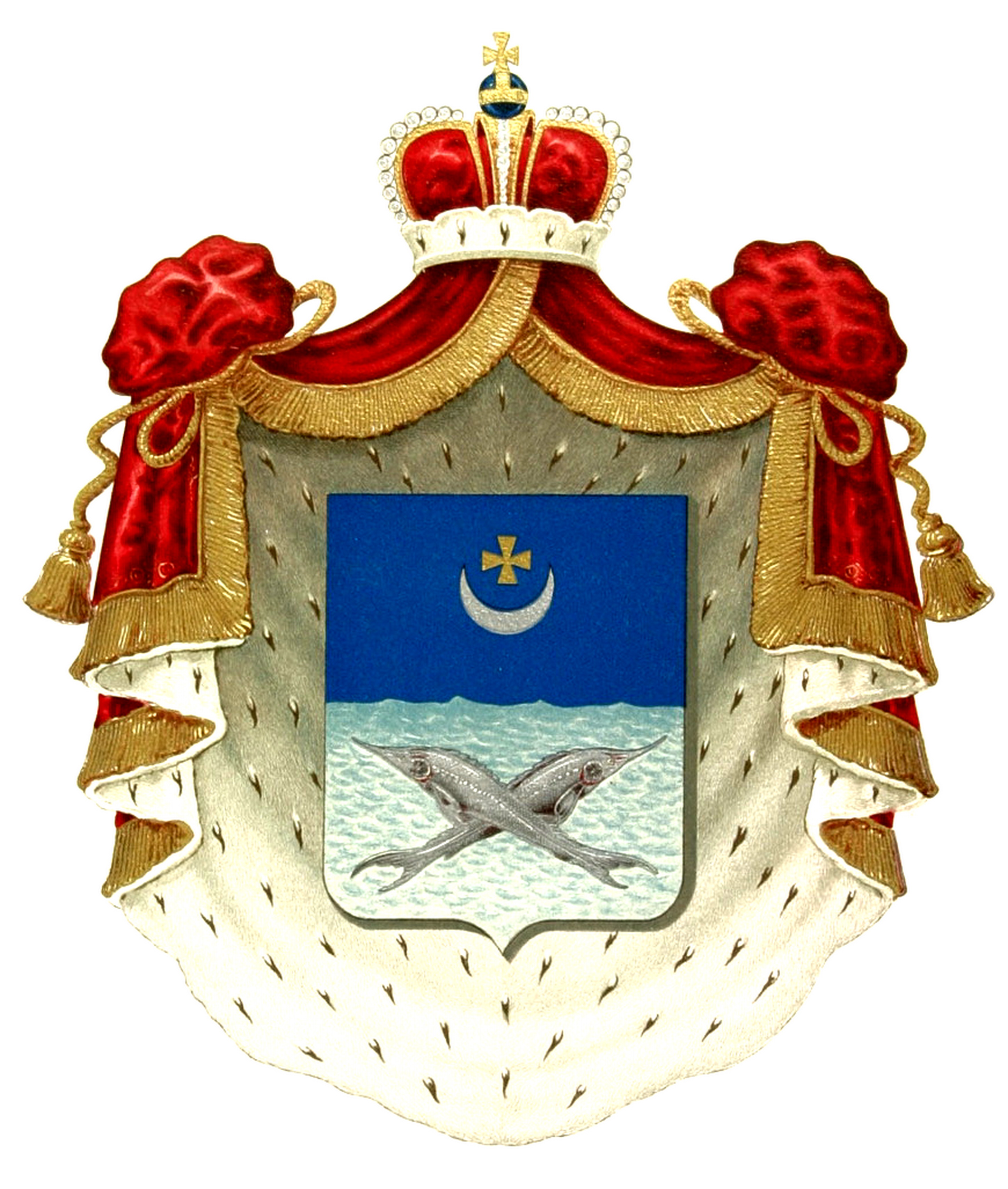 Coat of Arms of family Vadbolsky_and_Ukhtomsky